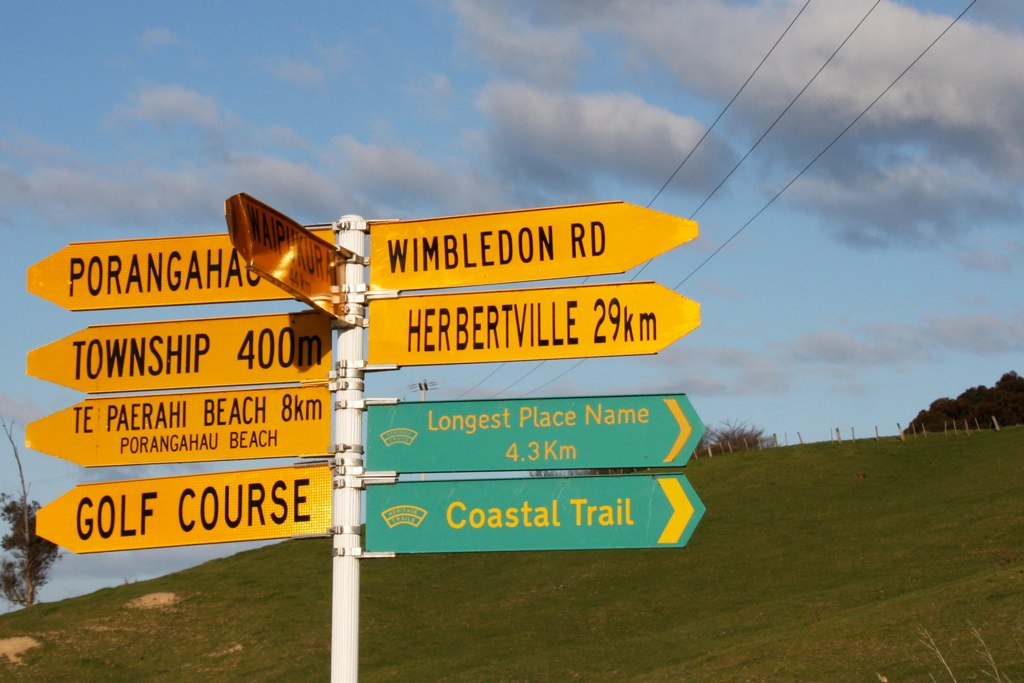 The longest place name in the world